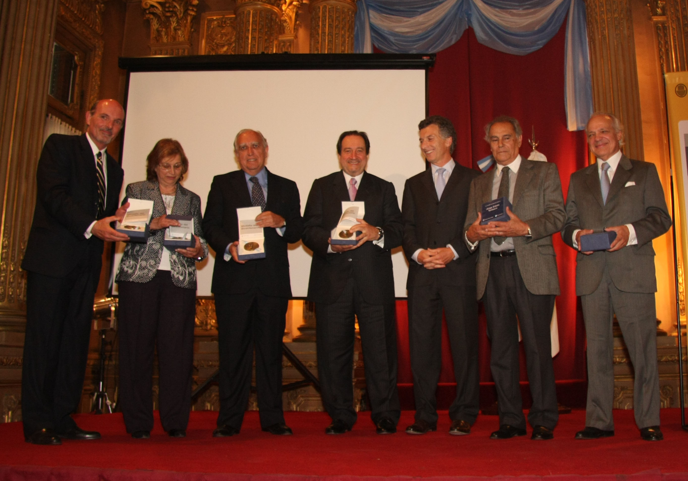 Buenos Aires Mayor Mauricio Macri (third from right) presents the Bicentennial Medal on October 26, 2010, to the presiding judges in the historic 1985 Trial of the Juntas. From left: Jorge Valerga Aráoz, Ana D'Alessio (widow of Judge Andrés D'Alessio), Ricardo Gil Lavedra, León Arslanián, Mayor Macri, Jorge Torlasco, and Guillermo Ledesma. Photo: Mariana Sapriza for the City Government of Buenos Aires.